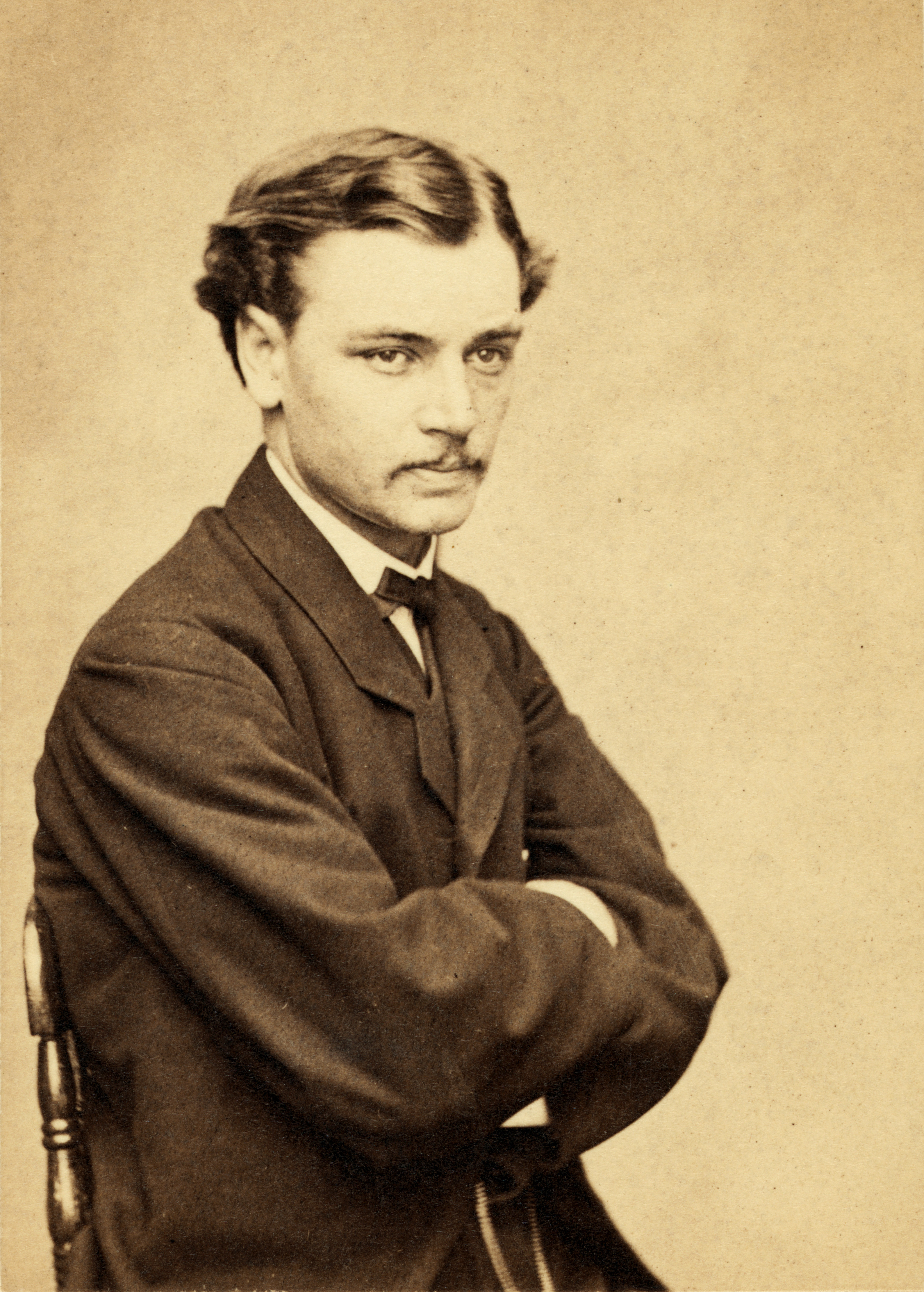 Photograph showing portrait of Robert Todd Lincoln, son of Abraham Lincoln, seated.